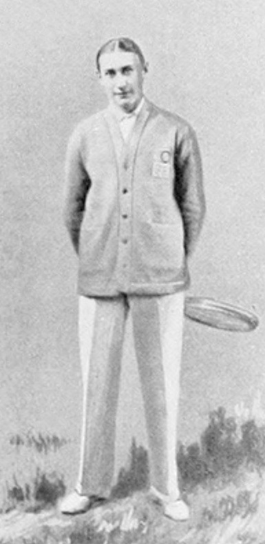 André Gobert at the 1912 Summer Olympics